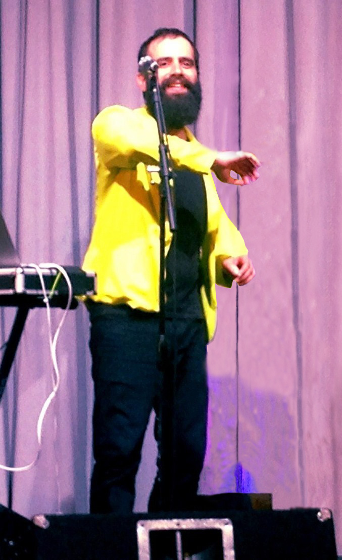 Sebu Simonian